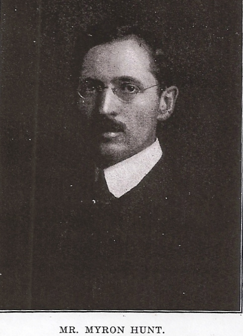 Myron Hunt — American architect. Photograph of architect Myron Hunt. Source=Architectural Record, February 1905, p. 157 Published in the United States before 1923.